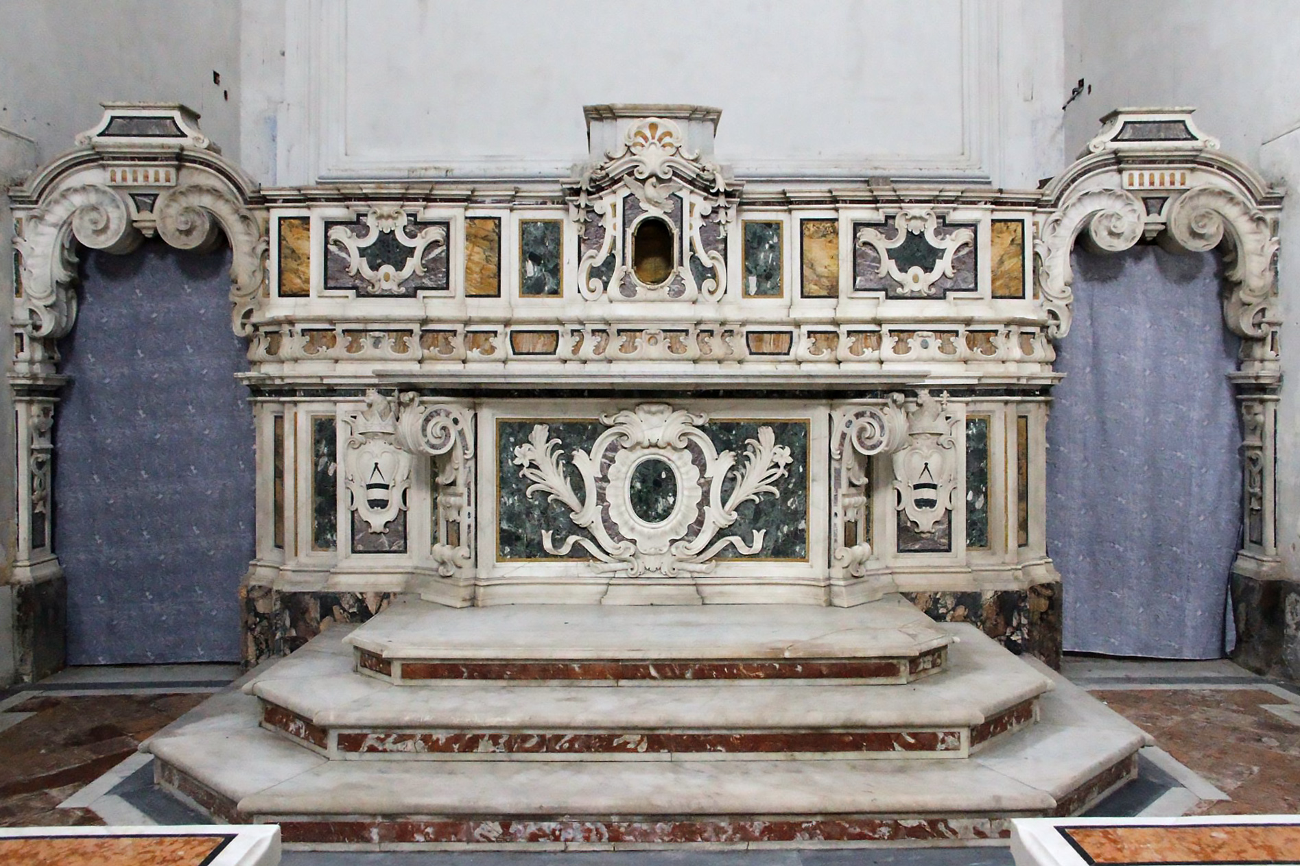 Interior of the church of San Marco dei Sabariani in Santa Teresa, Benevento, Italy, opened exceptionally on 22nd March 2015 during the Fondo Ambiente Italiano's "Giornate di Primavera"